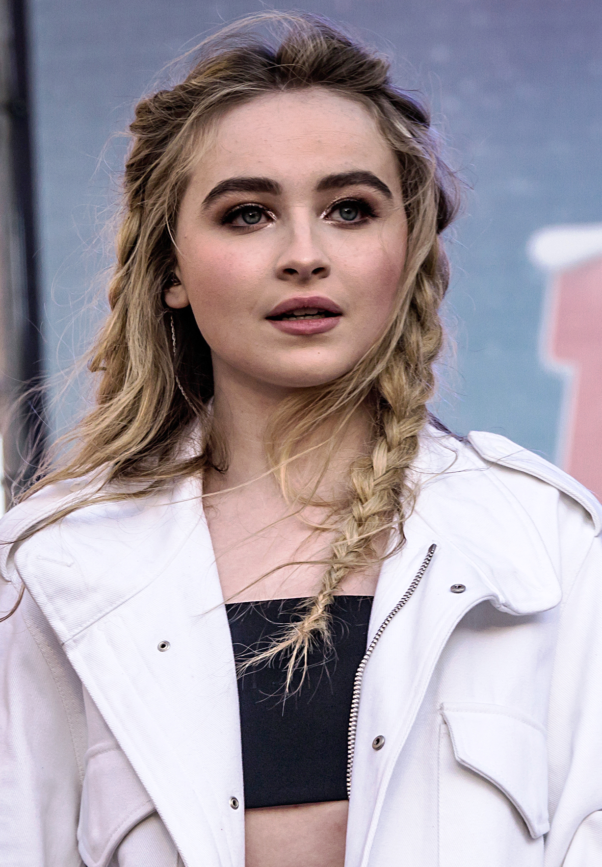 Sabrina Carpenter performing live at the 102.7 KIIS FM Jingle Ball Village, outside Staples Center in downtown Los Angeles, California, on Friday, December 2, 2016.